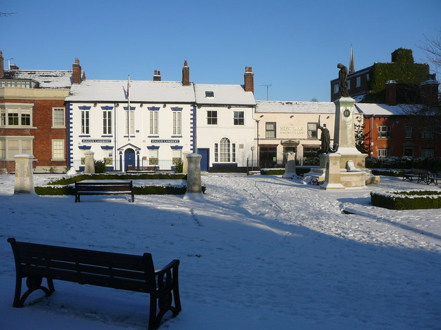 Photograph of Park Green, Macclesfield